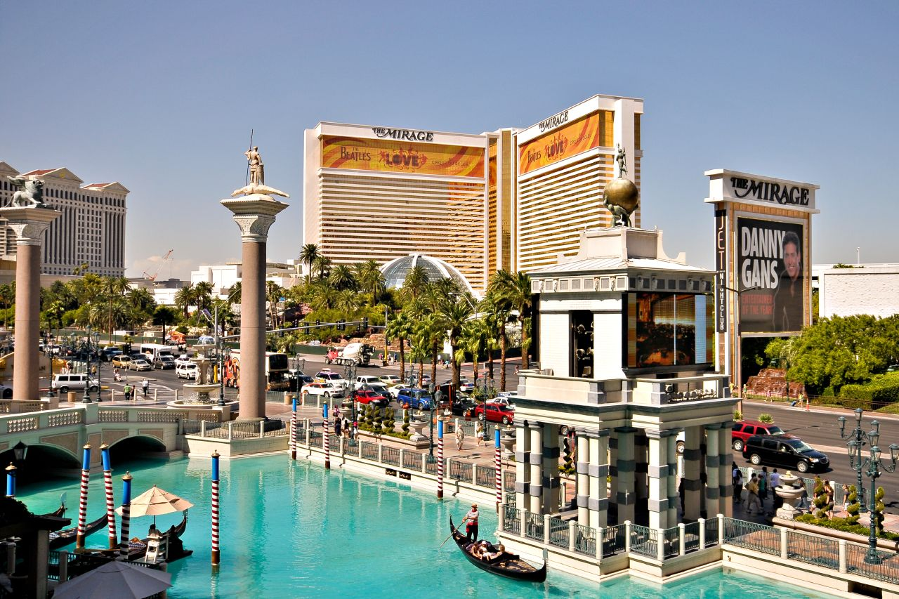 The Mirage viewed from the Venetian.